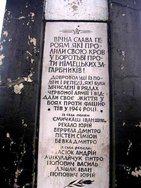 heroes memorial